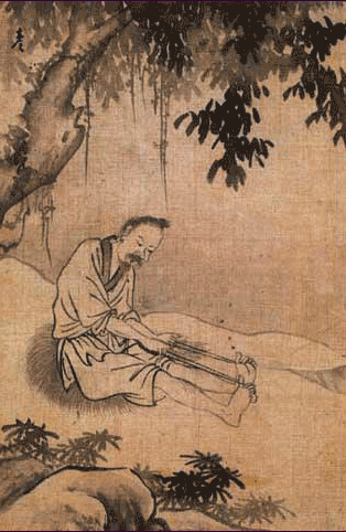 Old Man Making Starw Shoes(집신 짜는 노인)", Yun Duseo(윤두서), Joseon dynasty, late 17th ~ ealry 18th century.